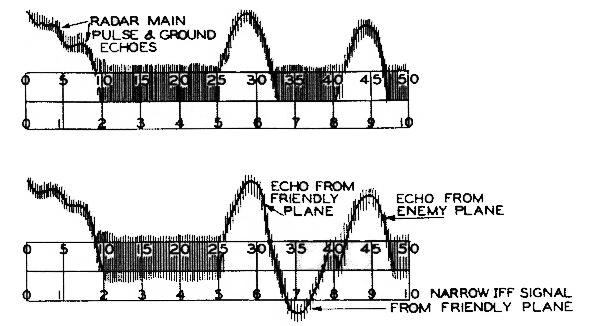 This image shows two sample displays from a typical radar or the WWII era. The top image shows a normal radar return, with the range extended to the right. The leftover signal from the transmitter on the left side blanks out any local signals, and in this example there are two strong returns from more distant aircraft. The lower image shows the same returns but with the addition of an IFF Mark III on the closer of the two aircraft. This signal is received separately from the radar return, amplified, inverted, and then mixed with the radar signal. The result is that the "blip" goes below zero for those aircraft displaying IFF.